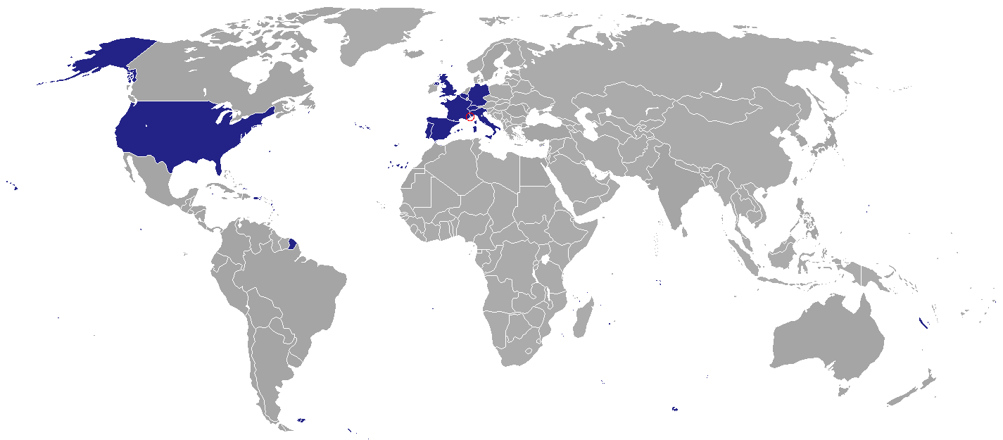 Diplomatic missions of Mónaco